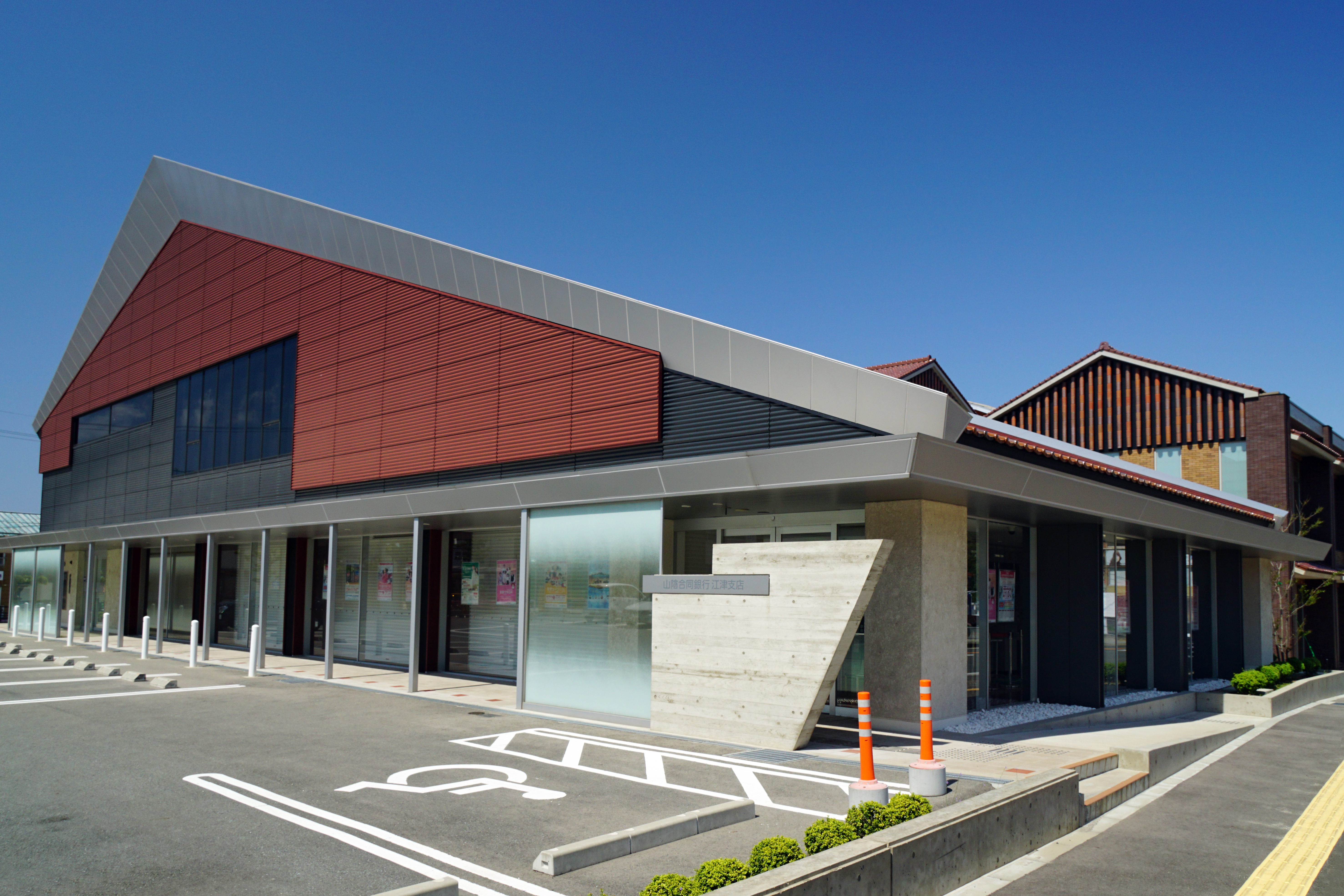 San-in_Godo_Bank_Gotsu_Branch, Gotsu, Shimane prefecture, Japan